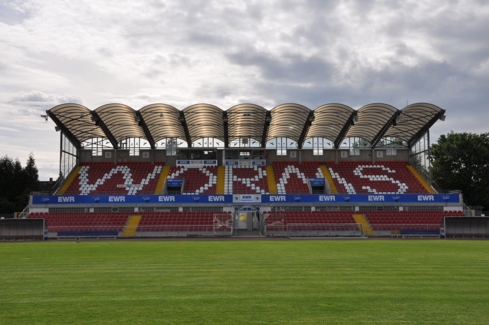 Main stand of the Wormatia-Stadium in Worms, Germany, after its renovation in 2008